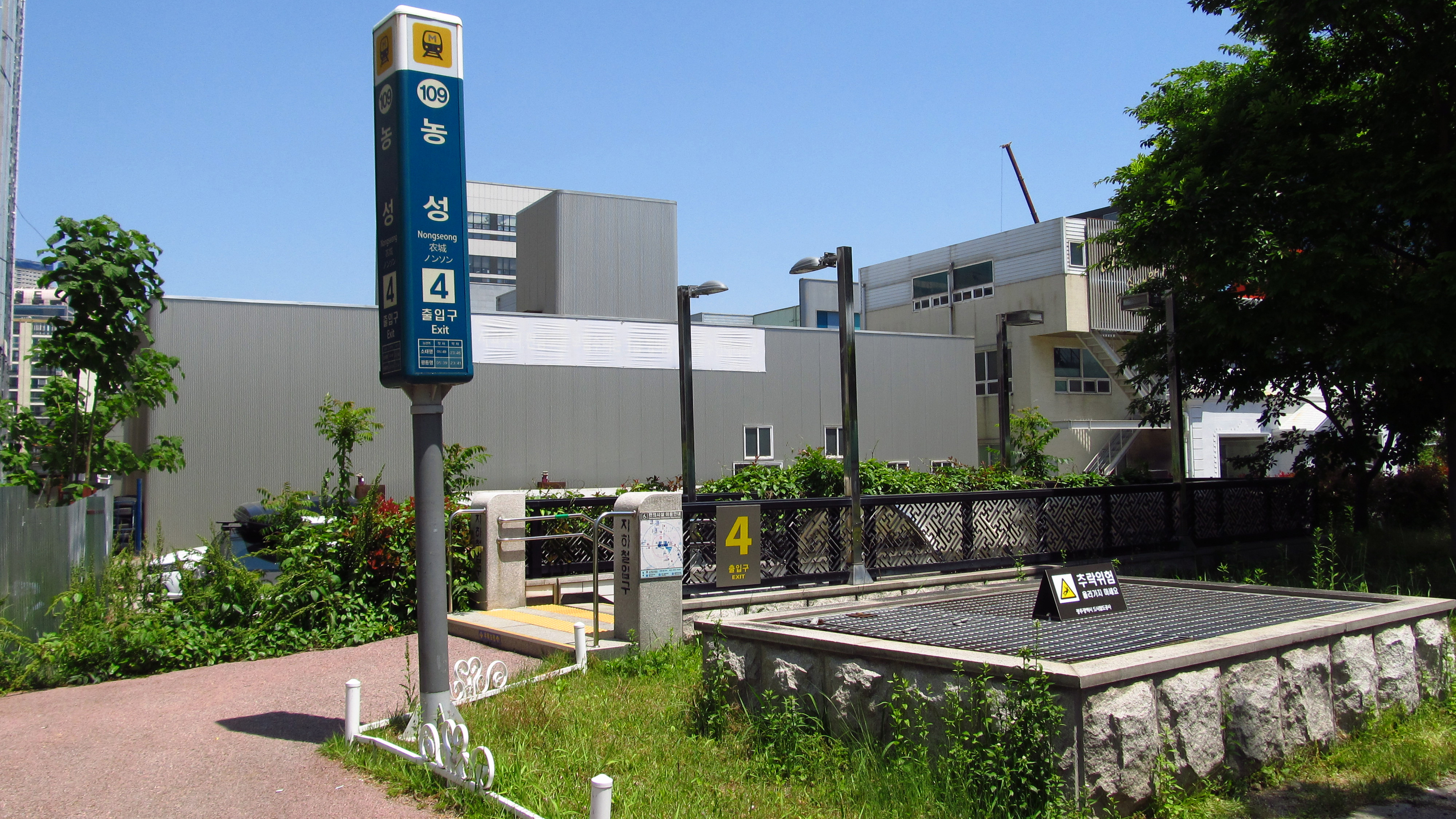 The no.4 entrance to Nongseong Station on Gwangju Metro Line 1 in Seo-gu, Gwangju, Republic of Korea(South Korea)